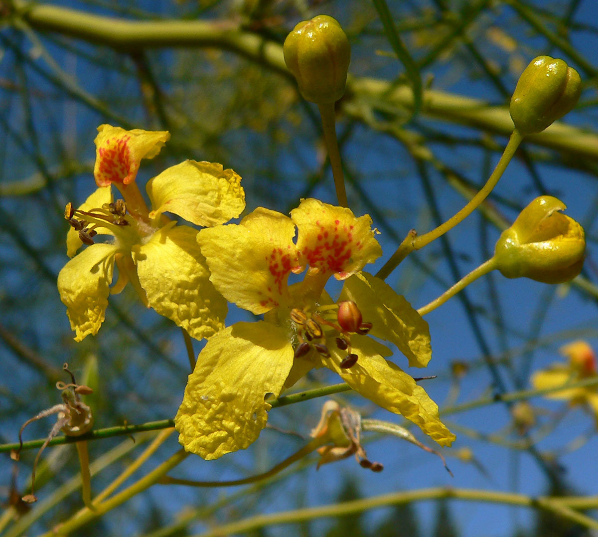 Parkinsonia aculeata at the University of California Botanical Garden, Berkeley, California